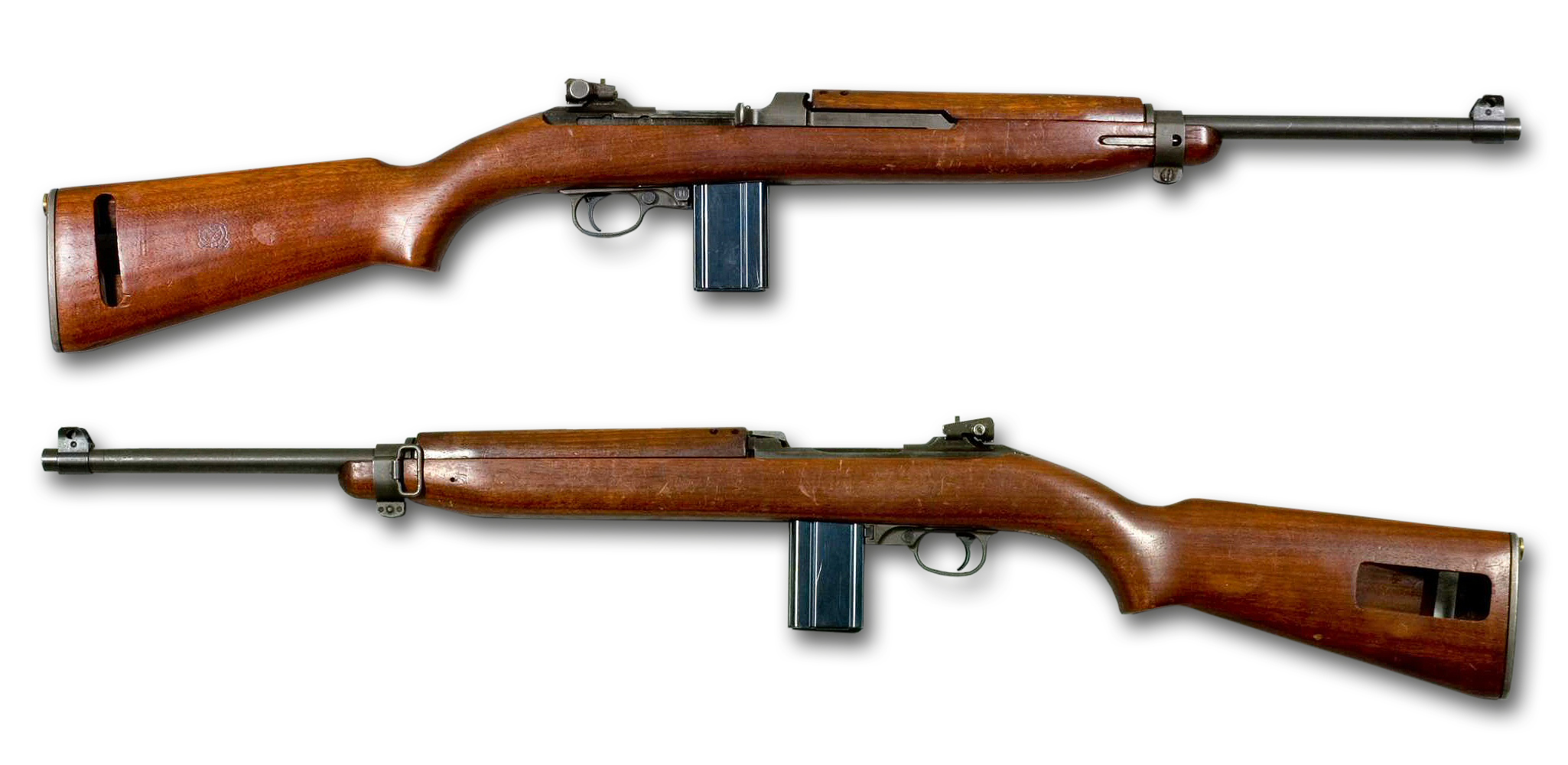 M1 Carbine, USA. Caliber .30 Carbine. From the collections of Armémuseum (Swedish Army Museum), Stockholm